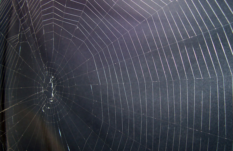 Web of orb weaver